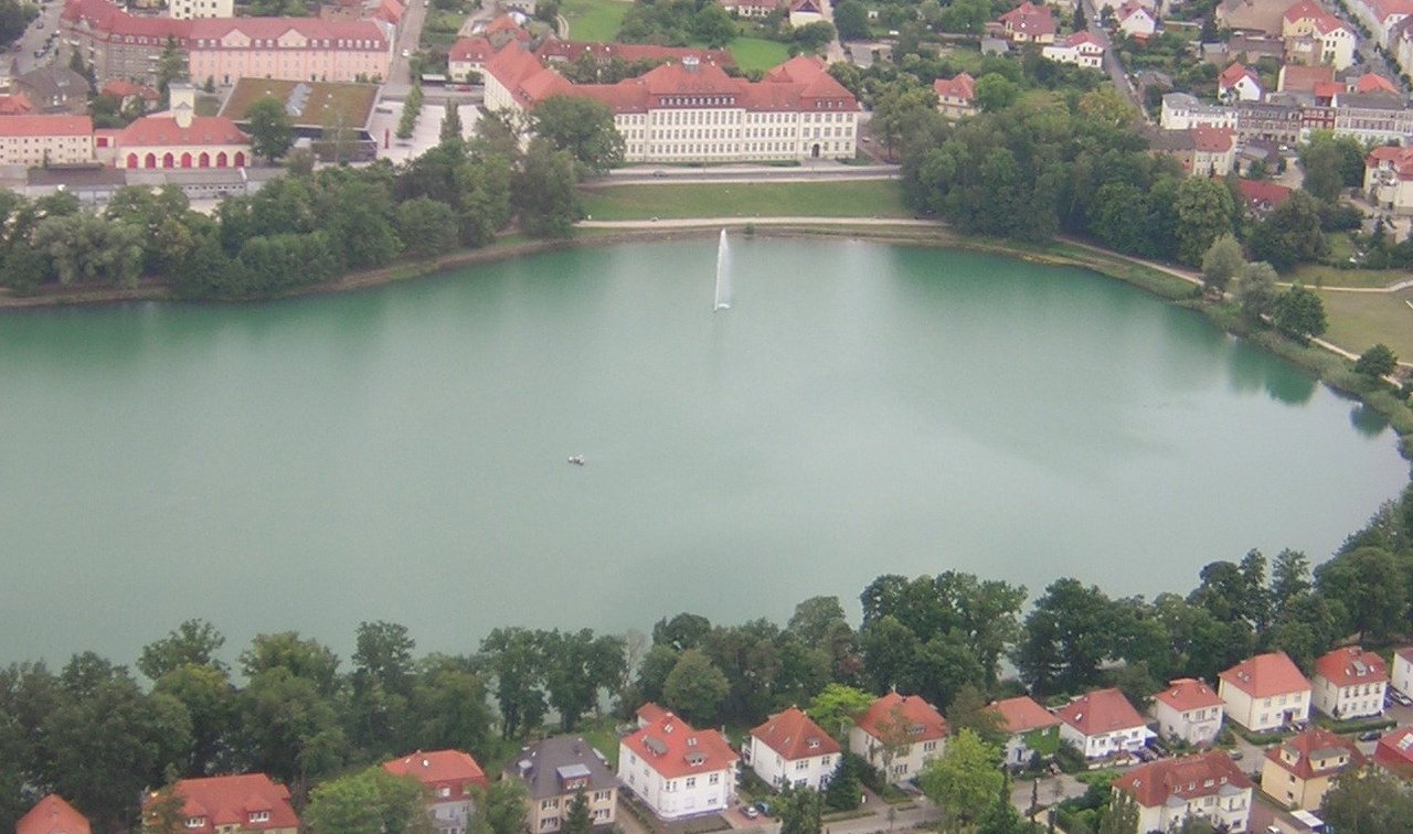 The grammar school Gymnasium Caraolinum in Neustrelitz as seen from the helicopter end of June 2006. The school is directly located at lake Glambecker See.